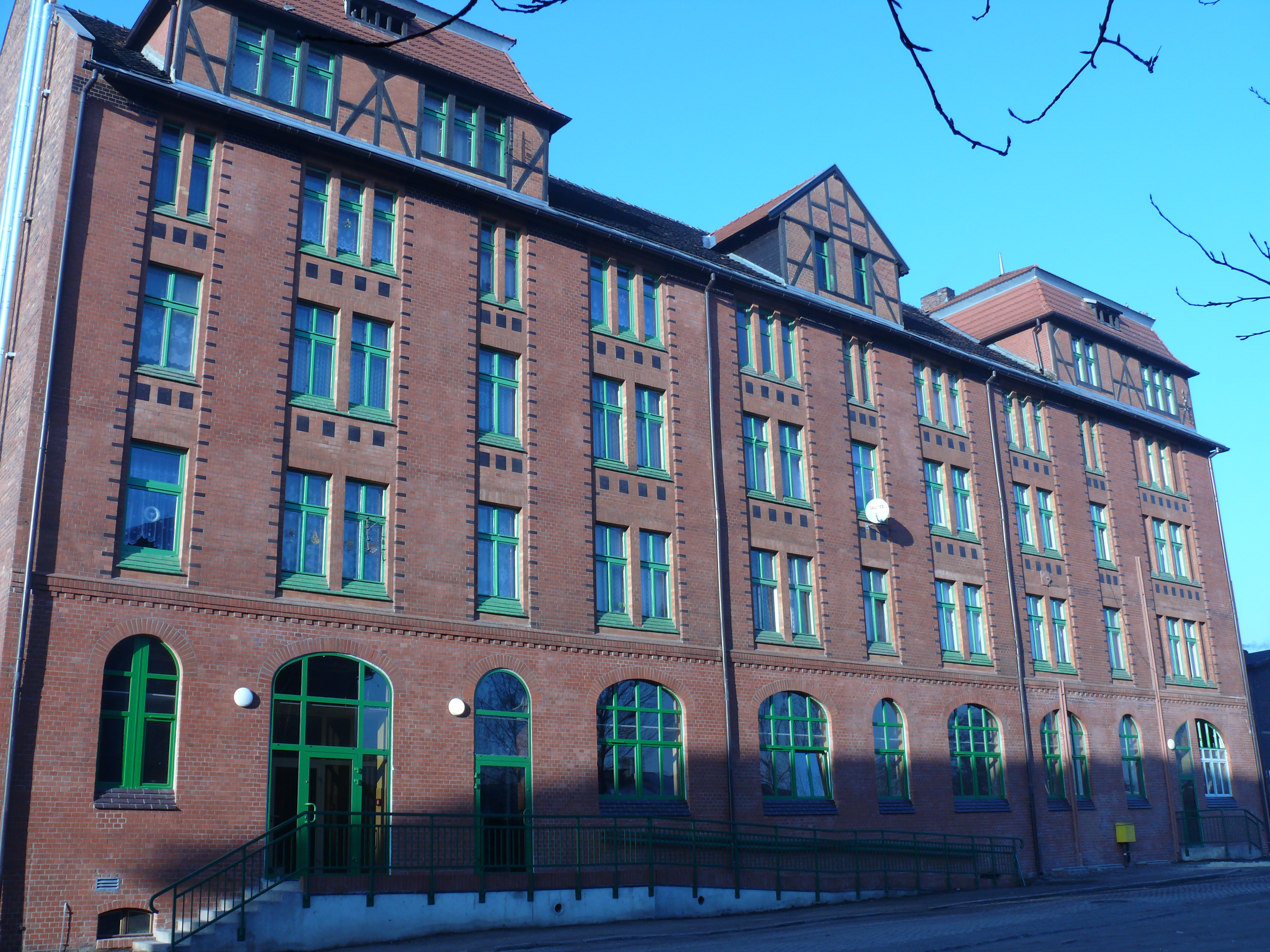 Haus on settlement Kaufhaus, Ruda Śląska, Upper Silesia